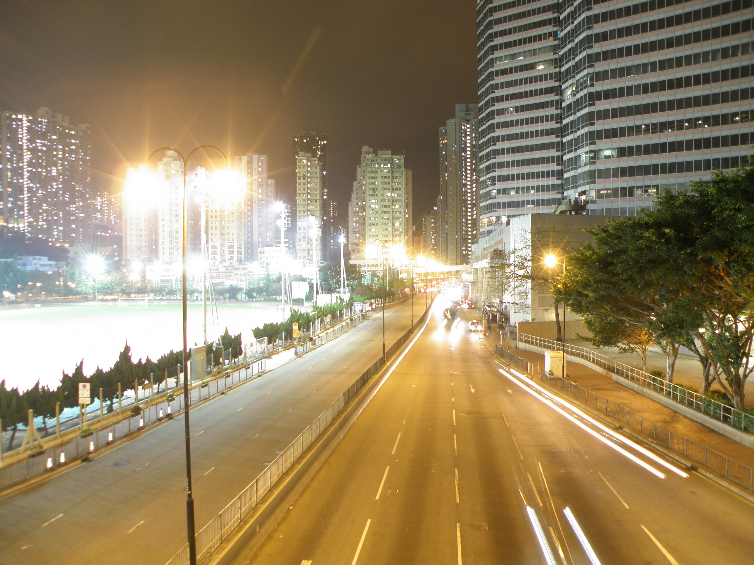 Hing Fong Road in Kwai Fong, Hong Kong.